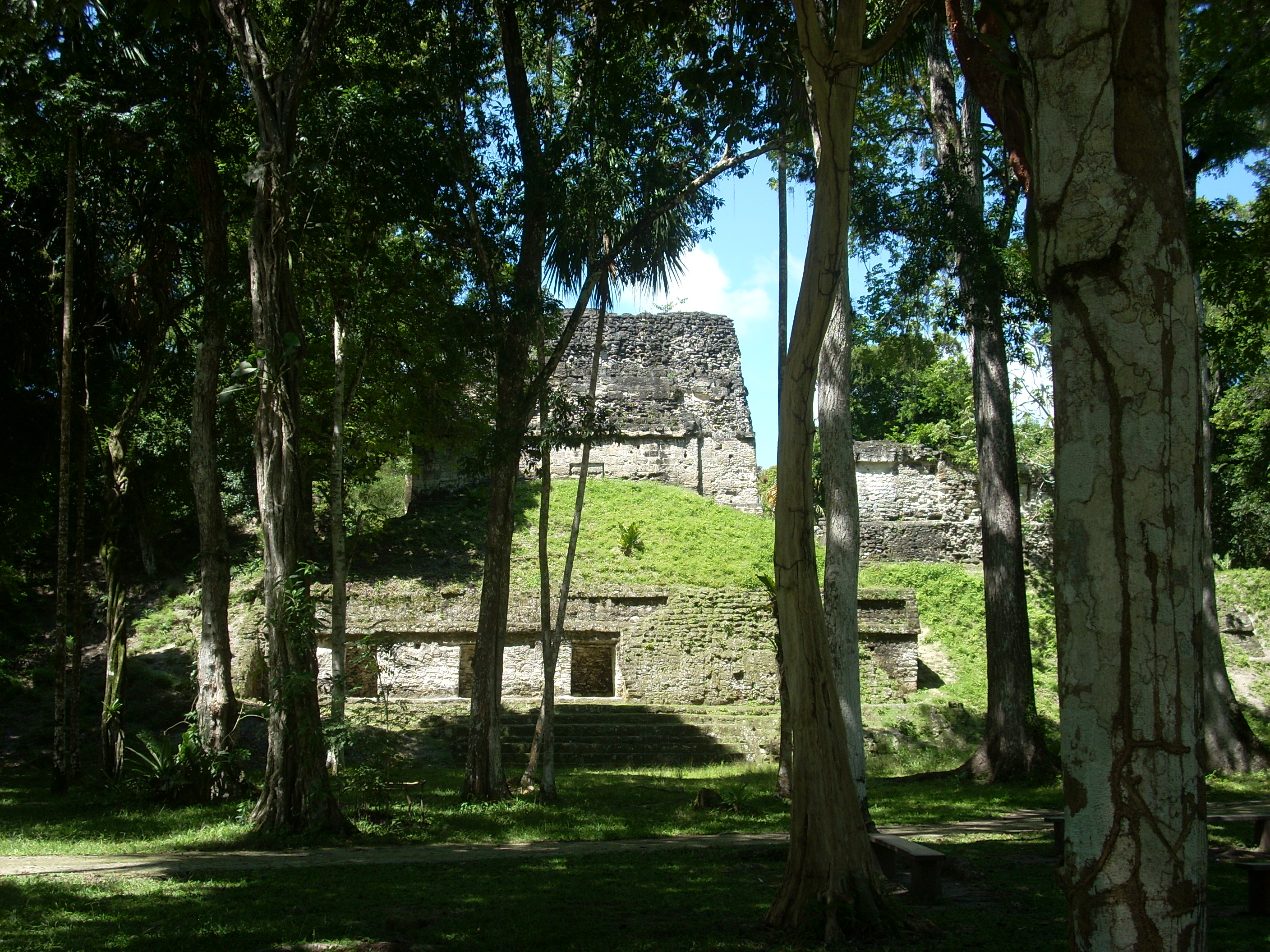 Plaza of the Seven Temples, west side. Tikal, Peten, Guatemala.